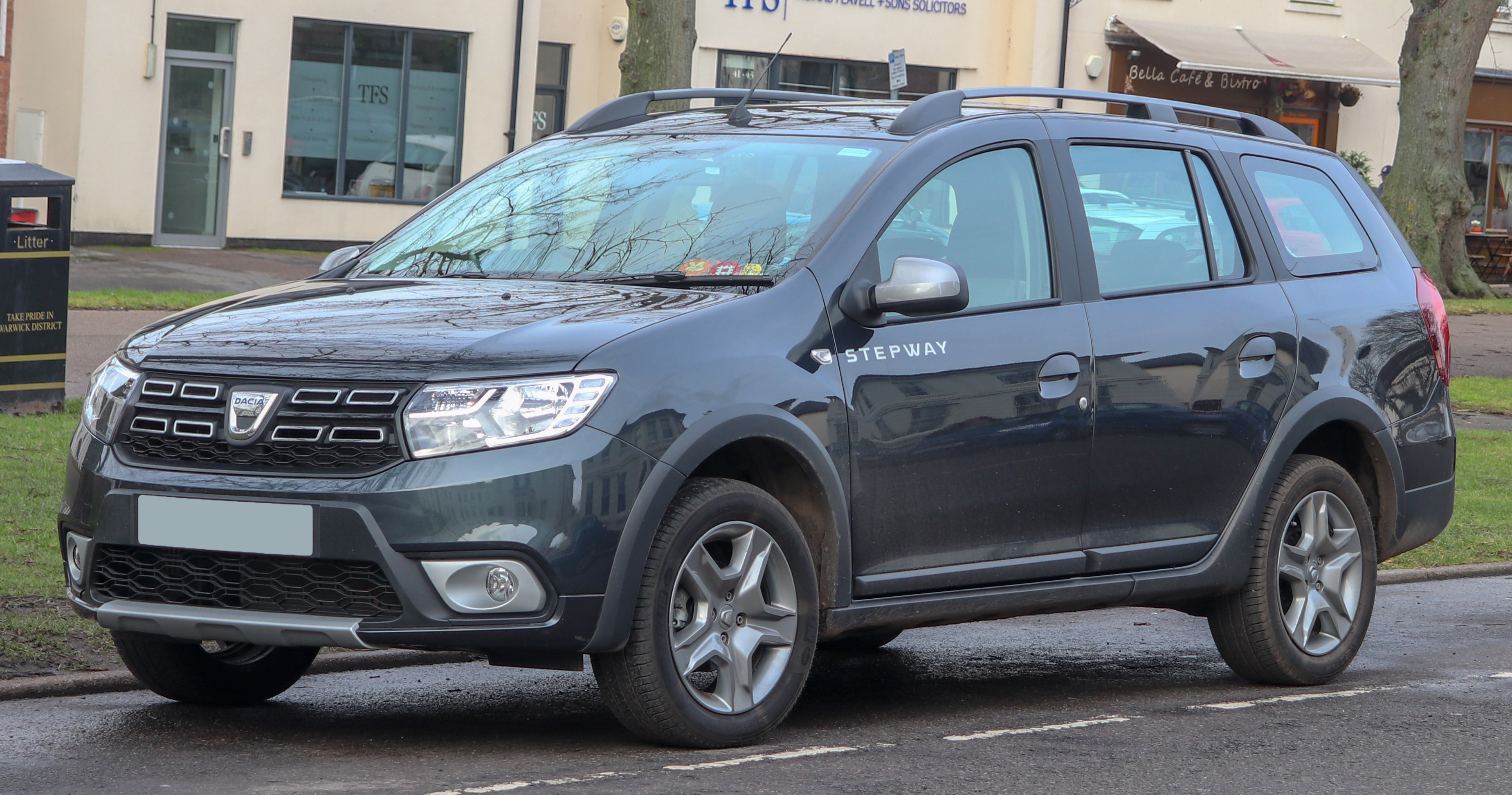 2018 Dacia Logan MCV Stepway Comfort 900cc Front Taken in Leamington Spa